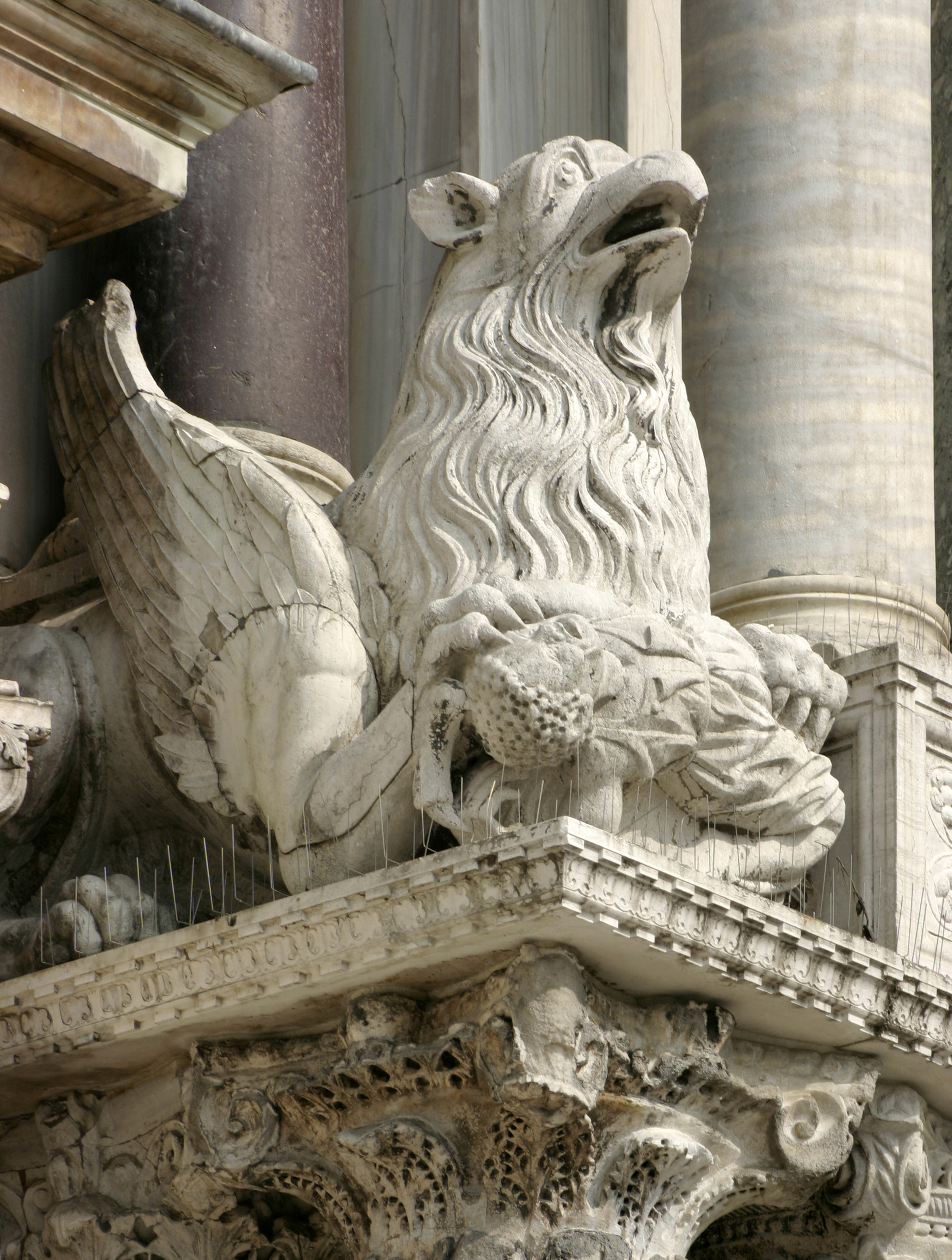 A statue of a griffin on the Basilica di S. Marco